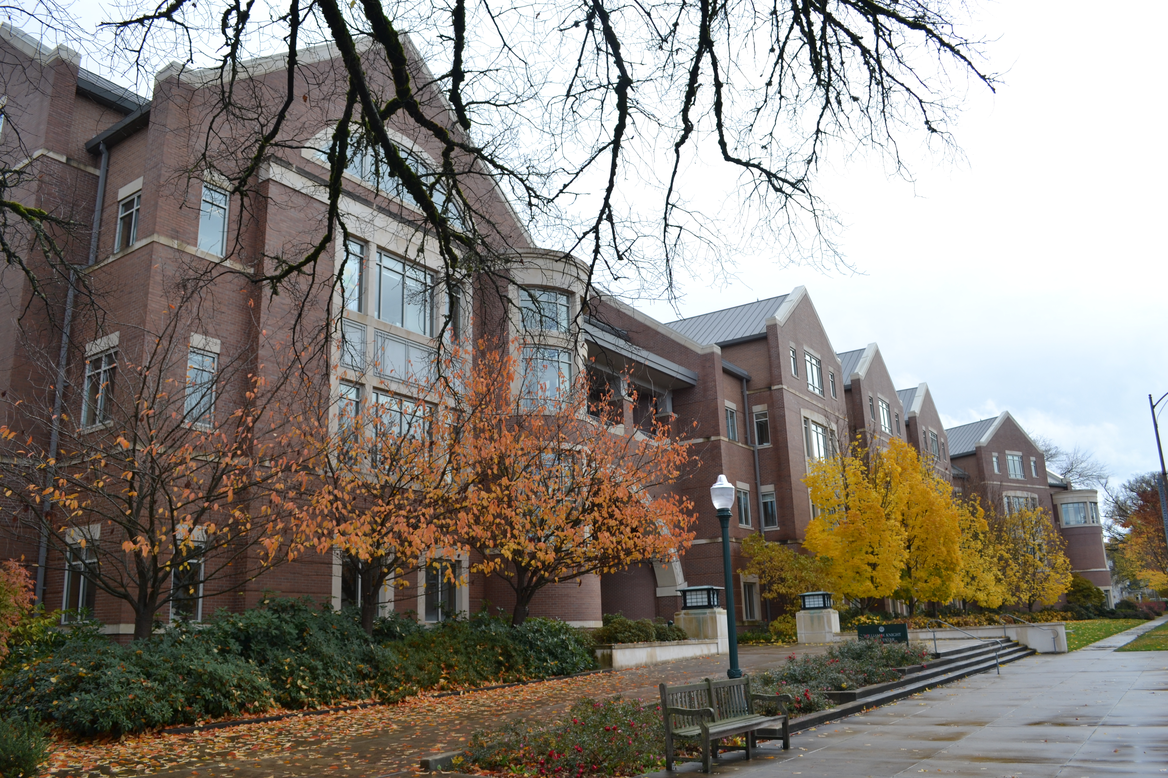 University of Oregon Law School